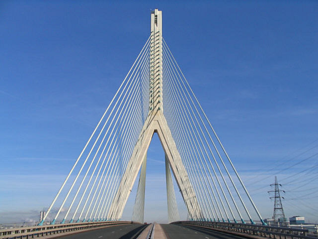 Flintshire Bridge. Great bridge, completed in 1997. Similar ones appear to be popping up all around the world.